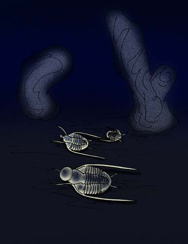 Reconstruction of the raphiophorid asaphid trilobite, Bulbaspis brevis, of Caradoc-aged Inner Mongolia, Ordovician China.